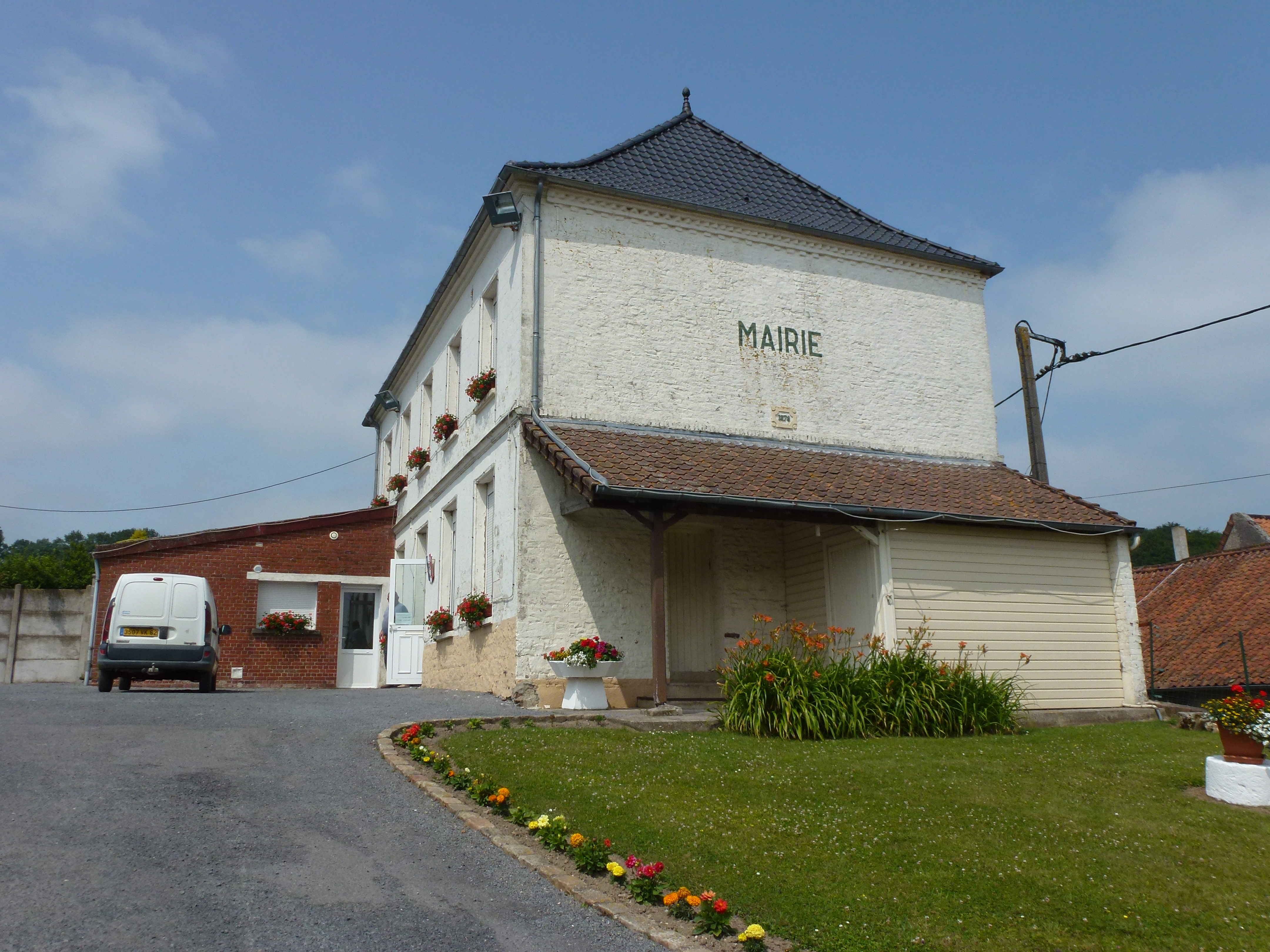 Sachin (Pas-de-Calais, Fr) mairie